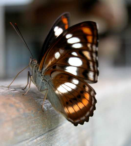 Athyma (nefte) inara (or intermediate with A. n. nivifera) taken at Jairampur, Arunachal Pardesh, India.